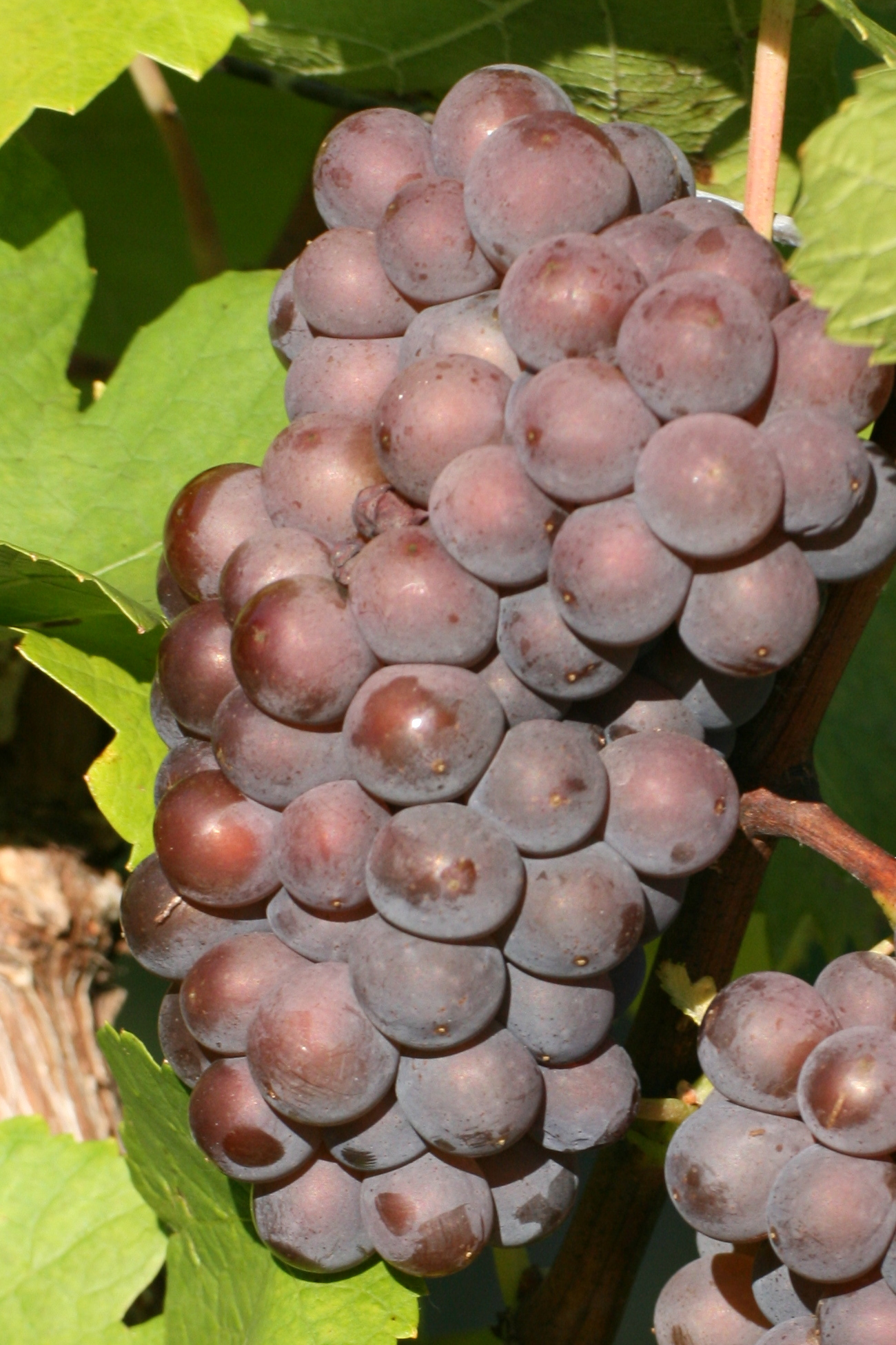 Grapes and leaves of the grape variety Pinot gris, photographed in Lehrensteinsfeld